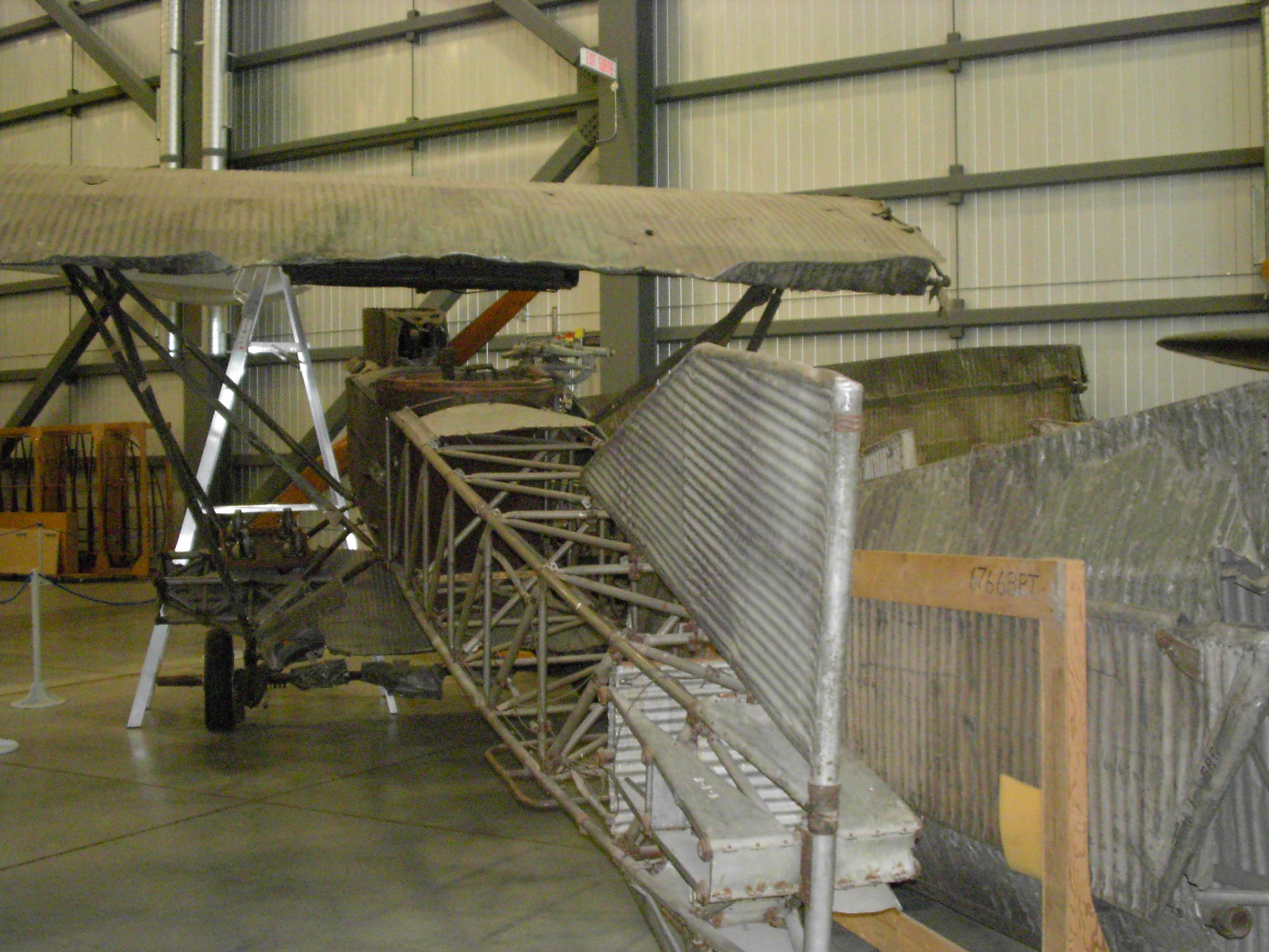 Junkers J.I. Taken by me at the Canada Aviation Museum.